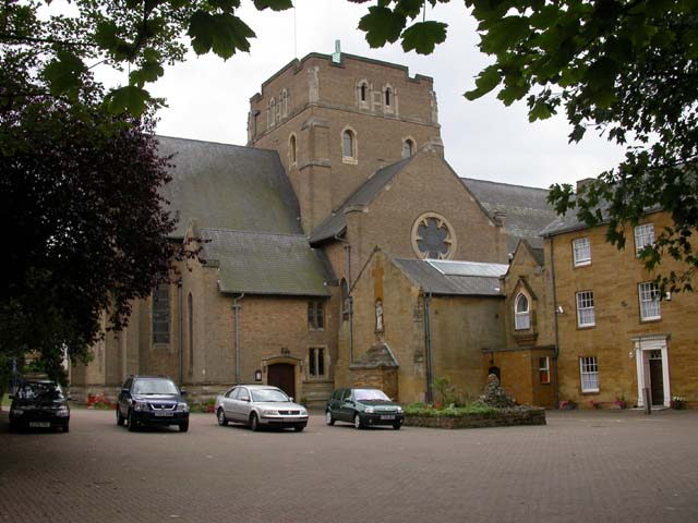 Cathedral Church of Our Lady Immaculate and St Thomas of Canterbury. Cathedral House is to the right of the image. This is the Roman Catholic Cathedral on Kingsthorpe Road (the A508).